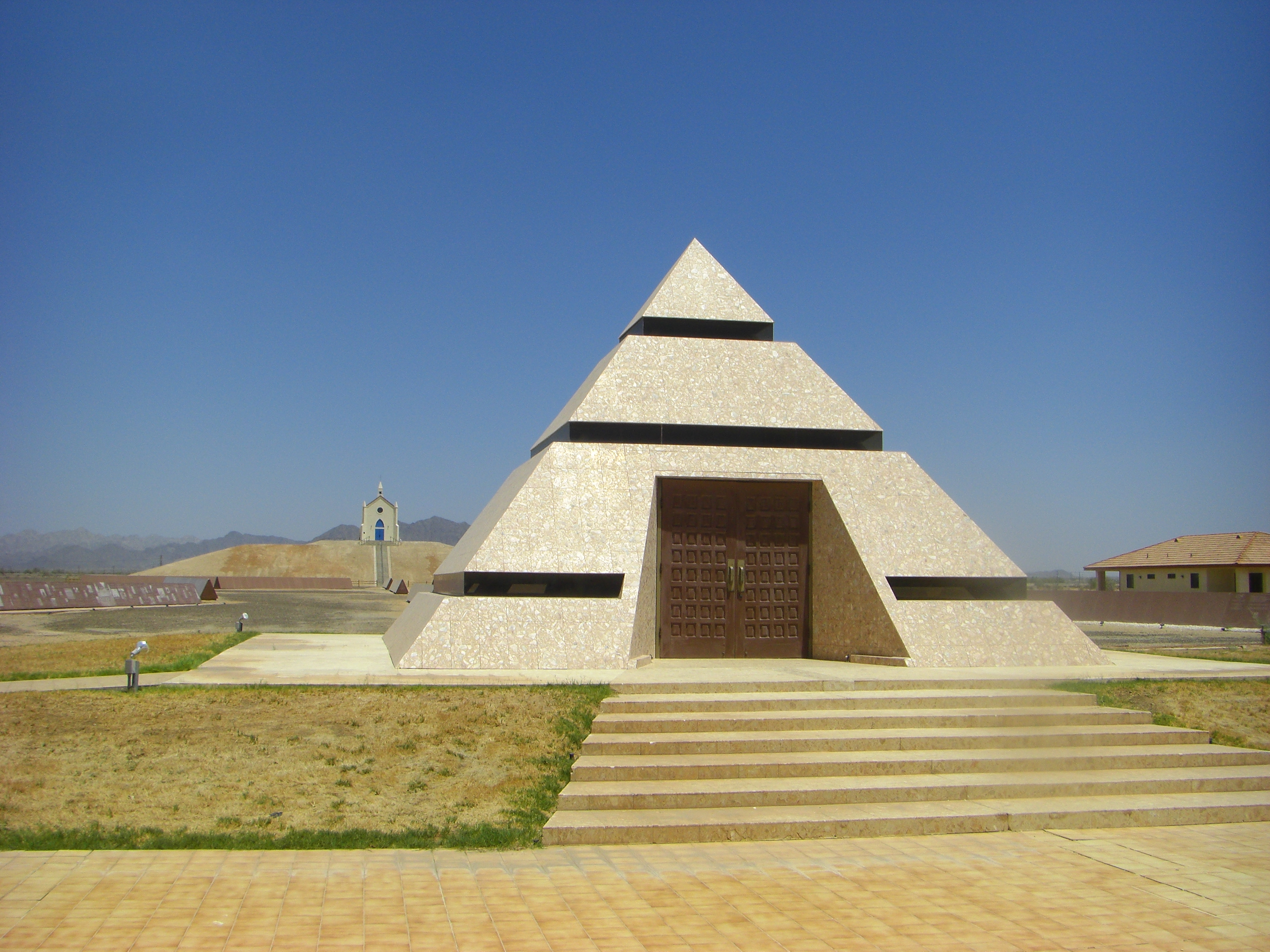 Center of the World pyramid at Felicity, CA